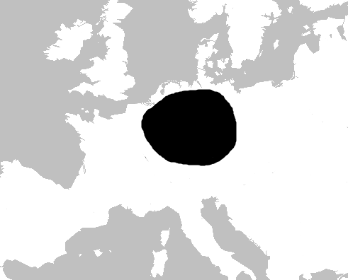 Distribuition of the Rössen culture (J.P.Mallory - EIEC p.489)